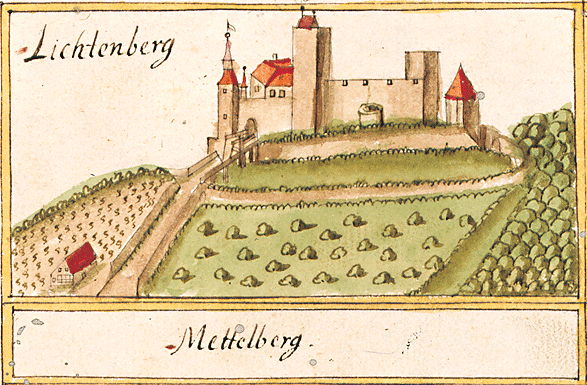 View of Lichtenberg, Oberstenfeld, from the forest register books created by Andreas Kieser